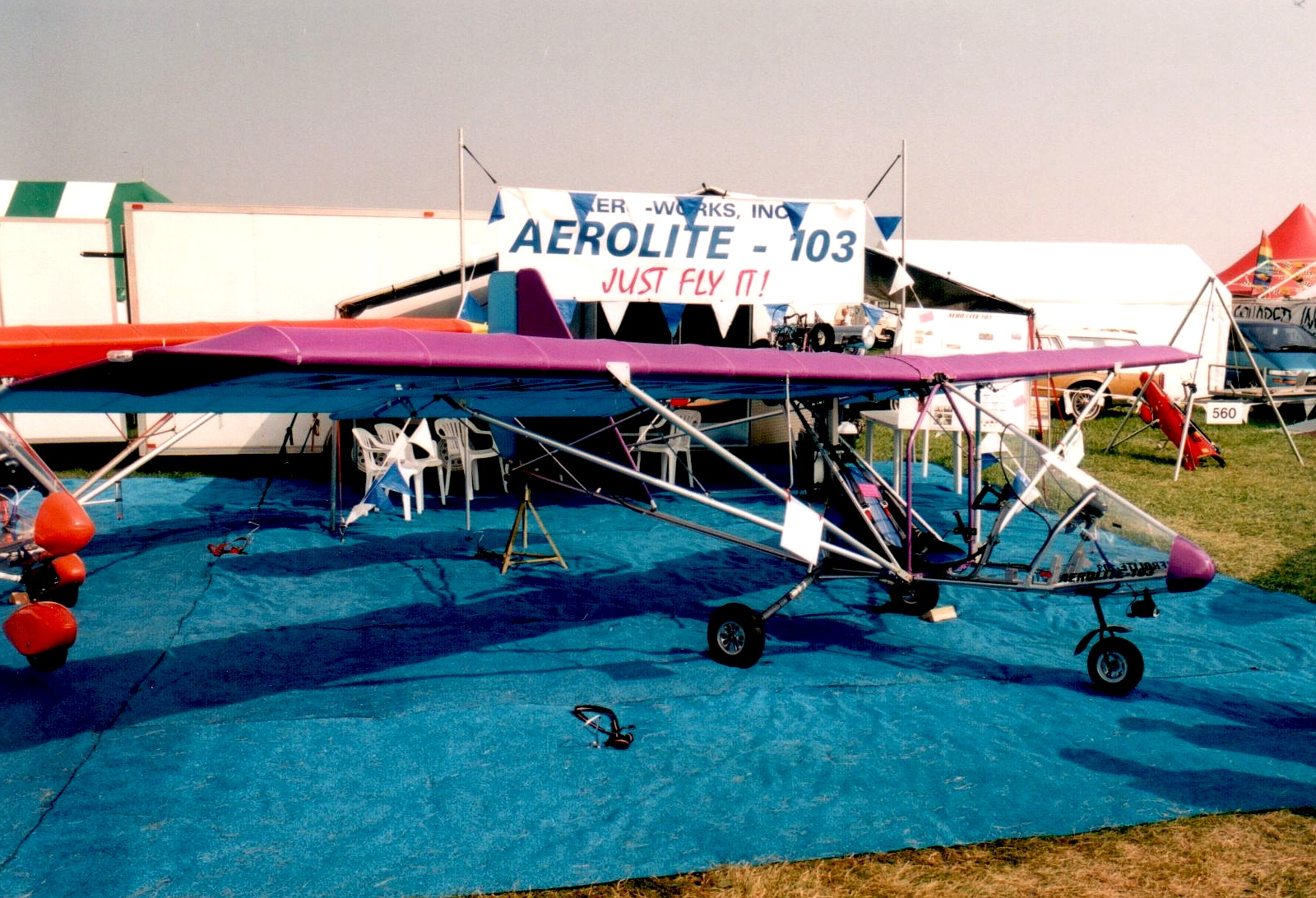 An Aero-Works Aerolite 103 ultralight at AirVenture Oshkosh 2001